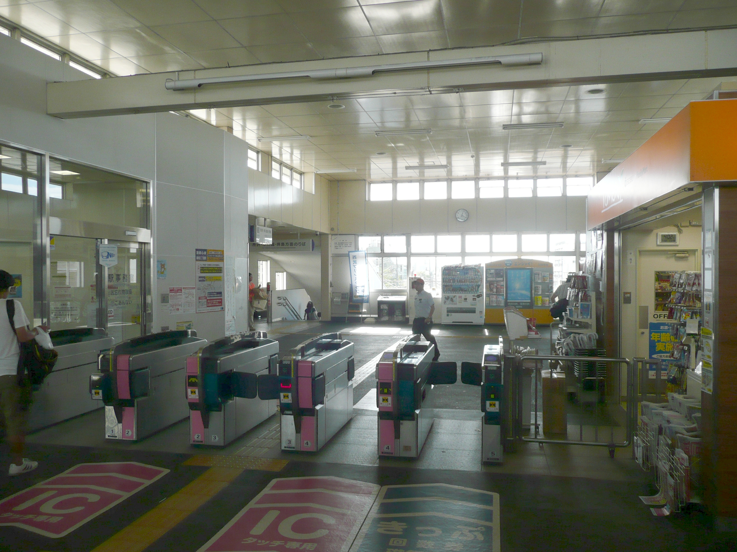 Ticket gate of Higashi-Fushimi Station